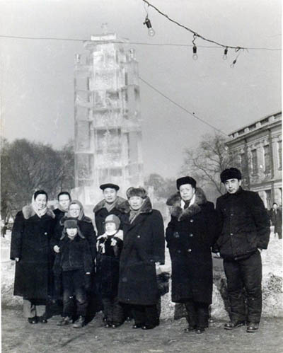 Ren Zhongyi, Ouyang Qin, Lv Qi'en etc, photographed on the first Harbin Ice Lantern Garden Party 1963.